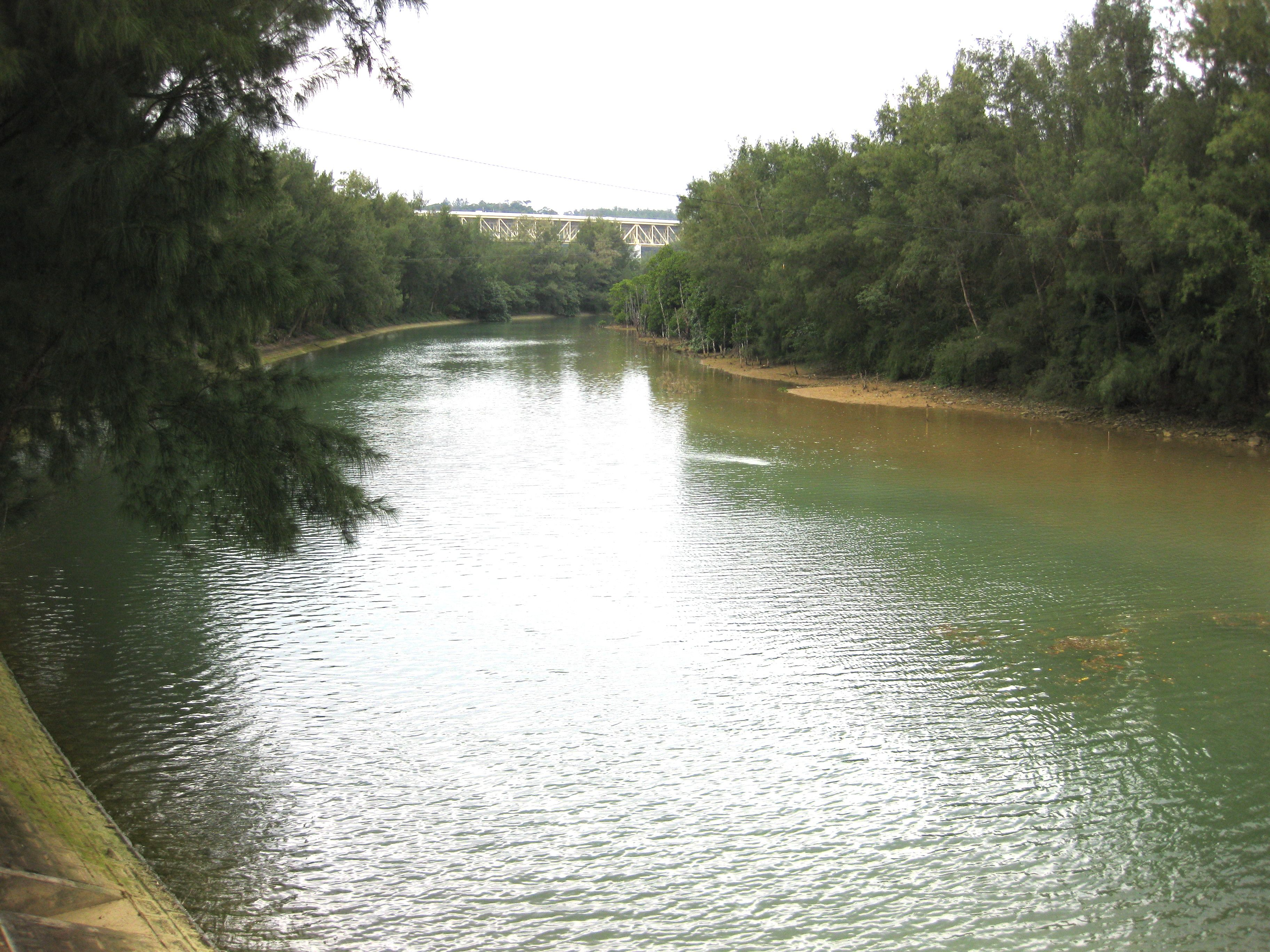 Kannafukuji River of Okinawa, Japan